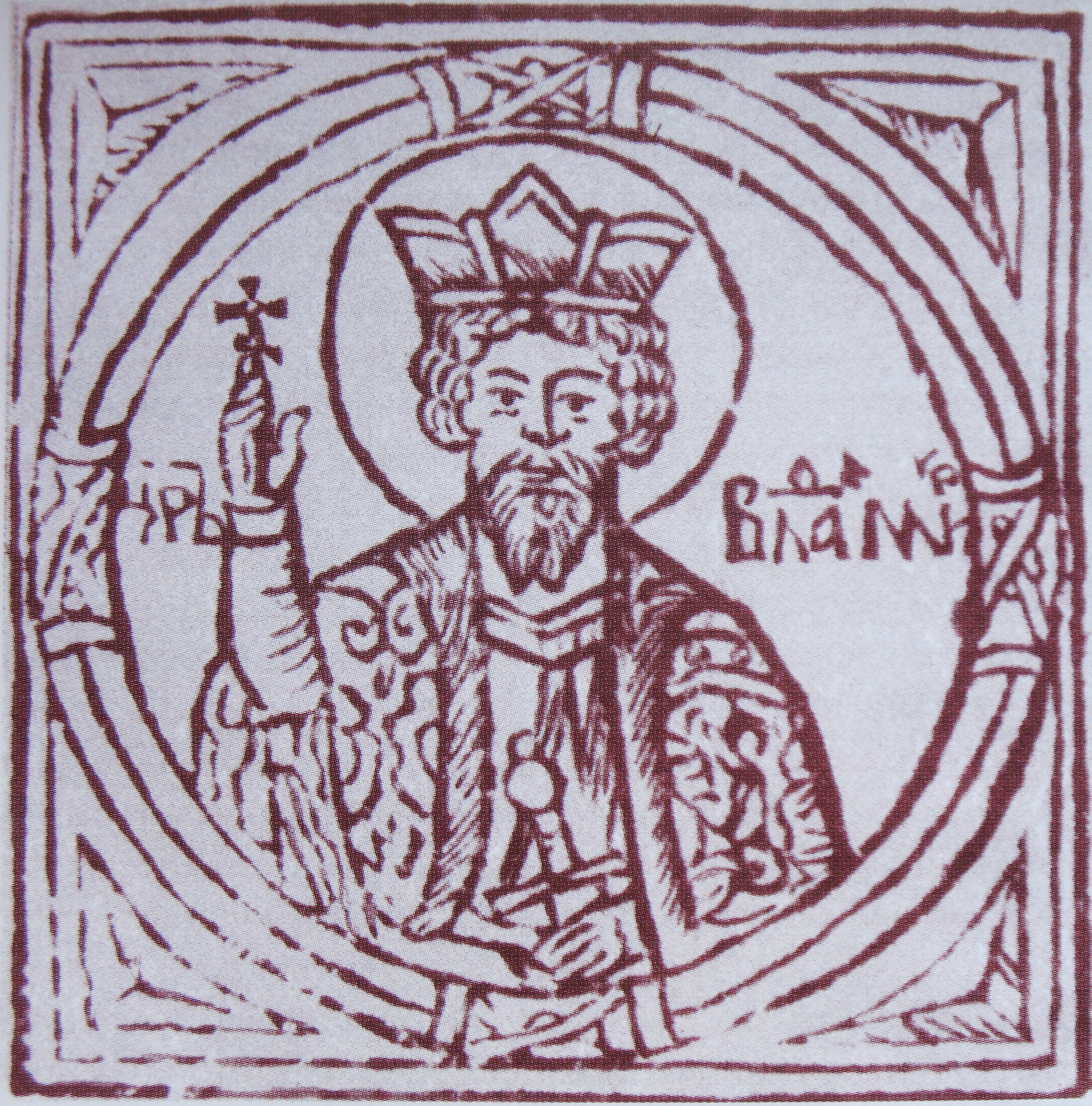 Russian kneze "Tsar" Vladimir (Great kneze Vladimir I of Kiev). Црь Владимир (на самом деле великий князь Владимир (Великий). Киев, Праздничная минея (печатная), 1619.